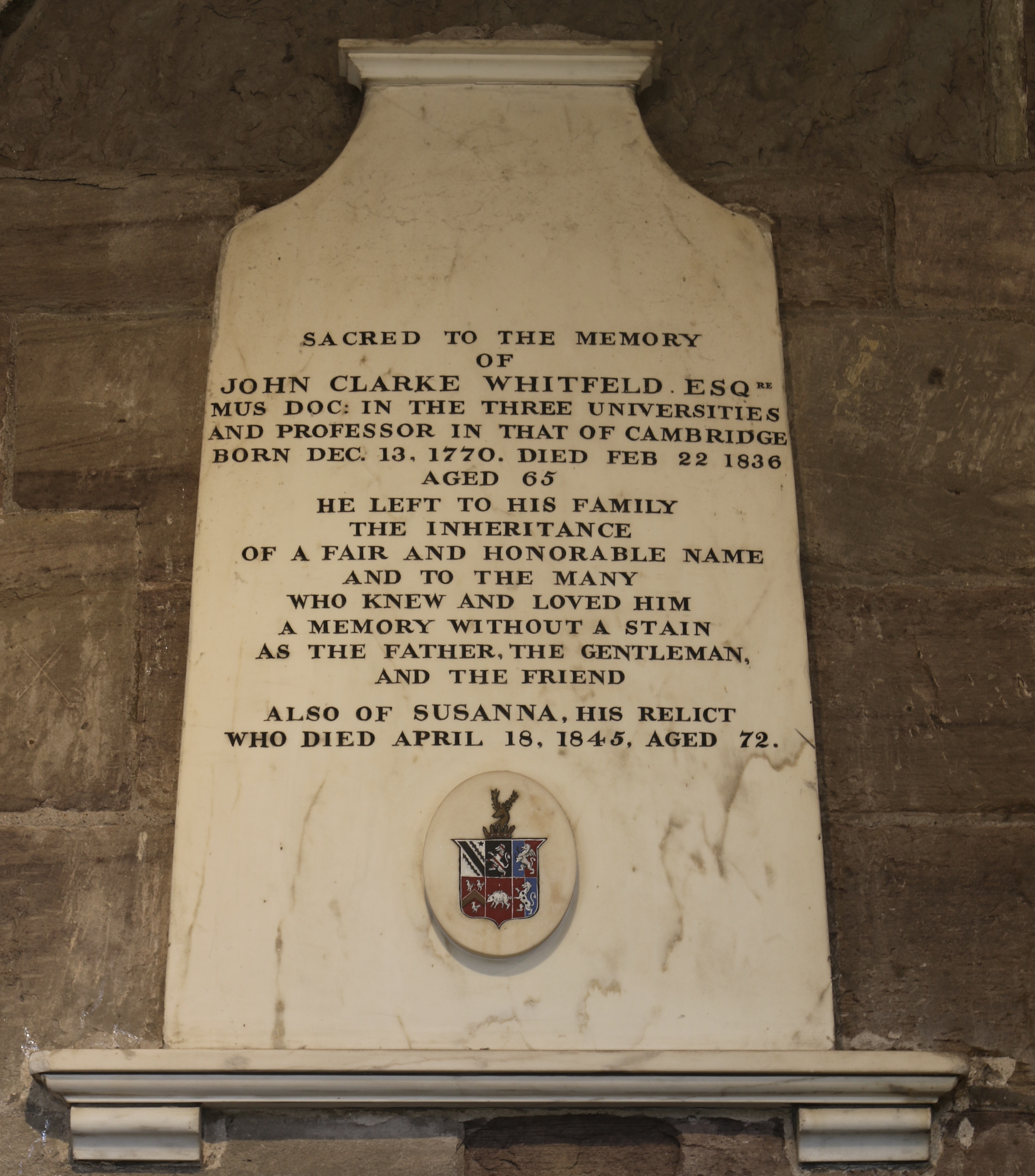 John Clarke Whitfeld, Mus. Doc. in the three universities and professor in that of Cambridge. Born 13 December 1770. Died 22 February 1836 aged 65. Also of Susanna, his relict who died 18 April 1845, aged 72.